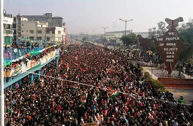 Shaheen Bagh Protest on 26th of January 2020, the 71st Republic Day of India. A huge crowd over 100,000 people turned out for the celebration of the Republic Day of India on 26th of January 2020. Flag hoisted by "Shaheen bagh dadis" and Rohit Vemula's mother.